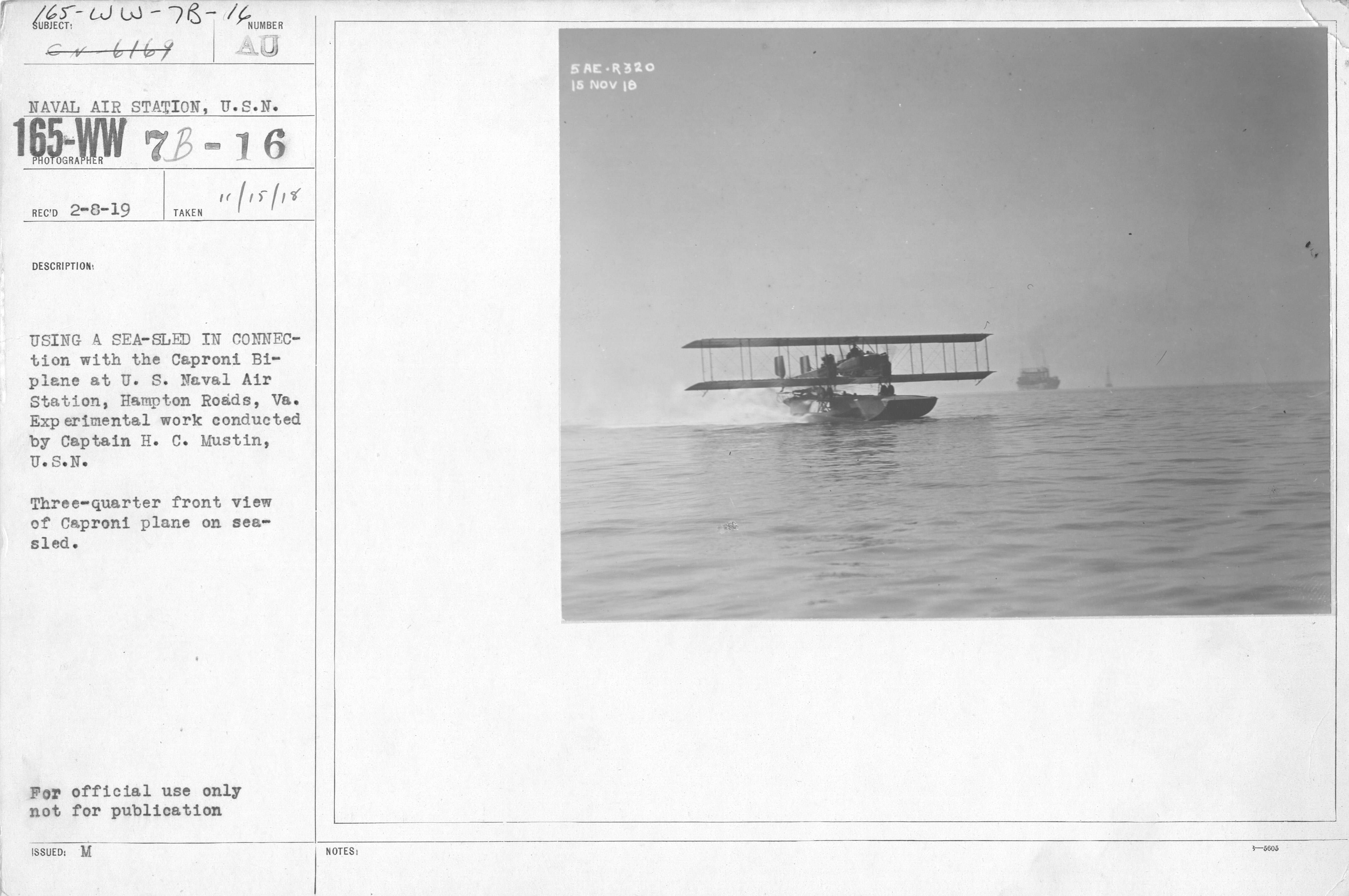 Scope and content: Date Taken: 11/15/1918 Photographer: Naval Air Station, U.S.N.